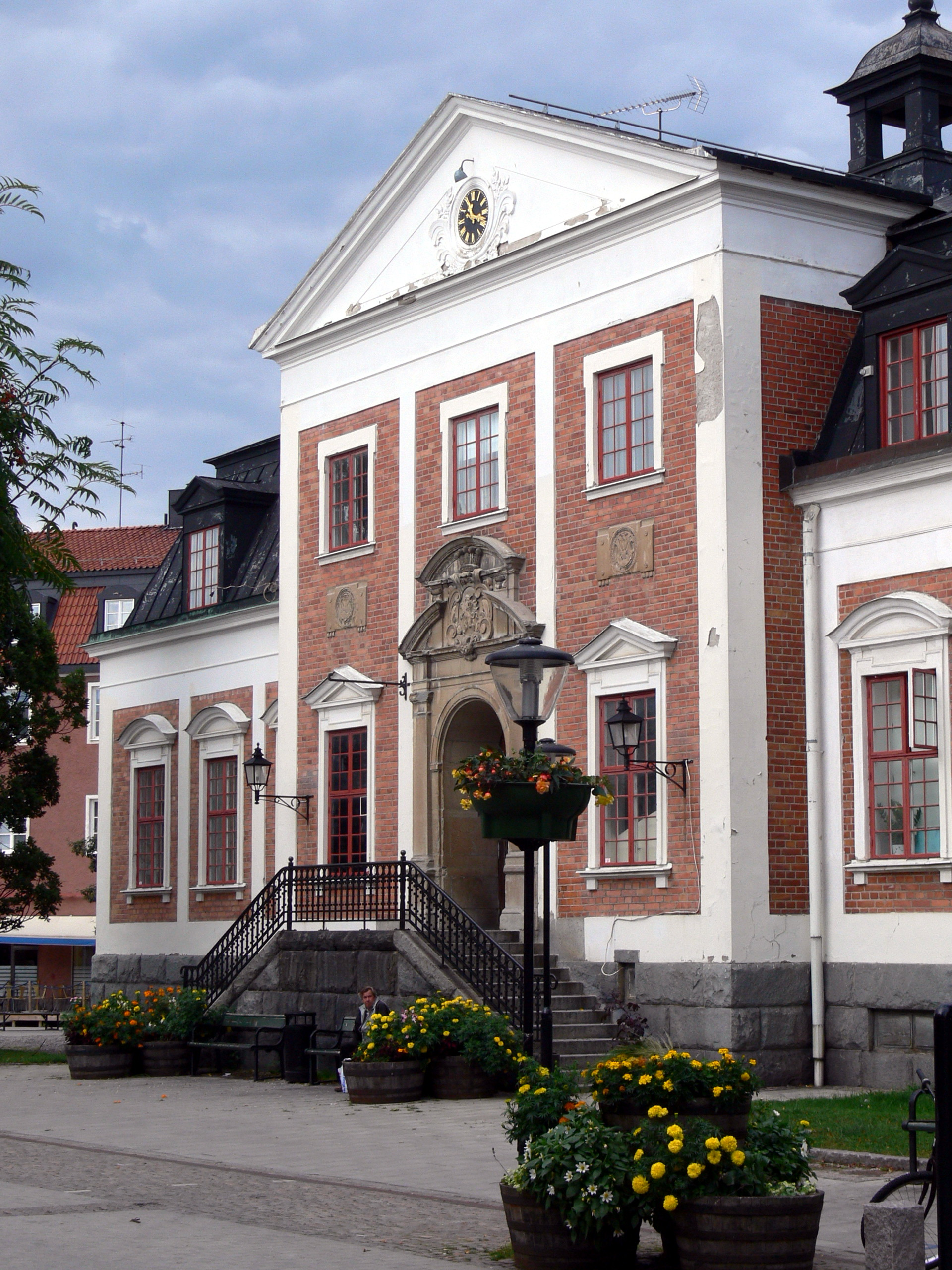 City of Strängnäs. Courthouse